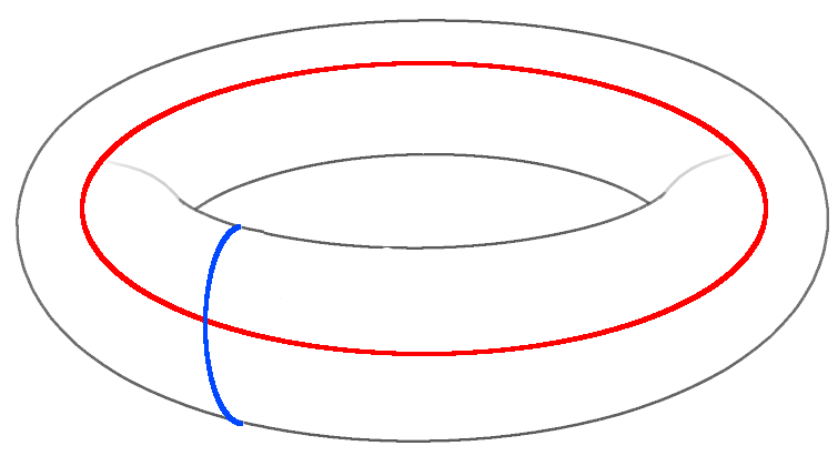 A torus with topologically non-trivial loops highlighted.